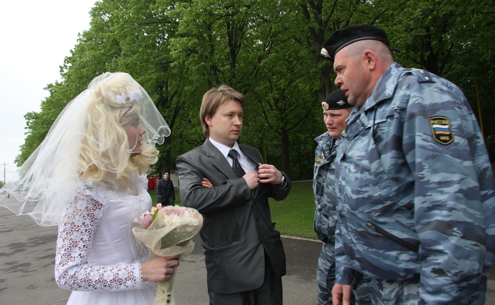 Nikolai Alekseev at the Slavic Pride on May 16, 2009. Two anti-riot police stop Nikolai Alekseev and his bride, a trans activist from Belarus, and ask for his documents.